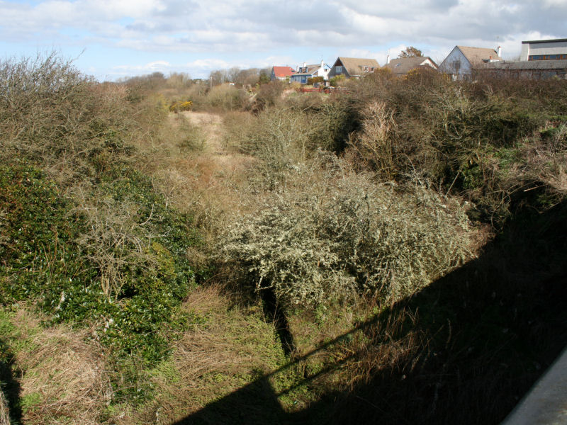 The site of Dunure railway station in 2008. The station's island plaform is just barely visible.